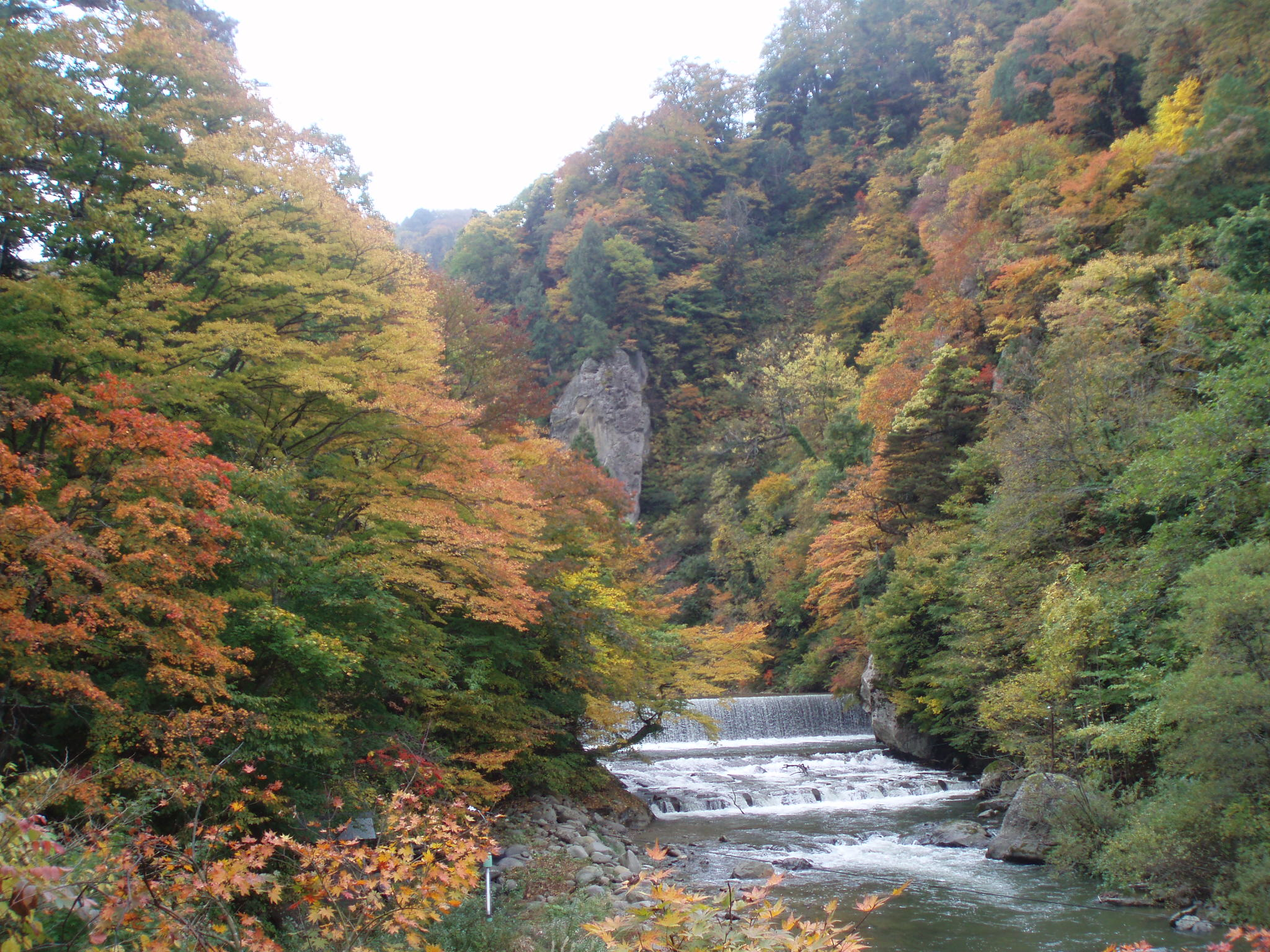 Photo of fall foliage at Takanoyu Onsen, Akita Prefecture, Japan